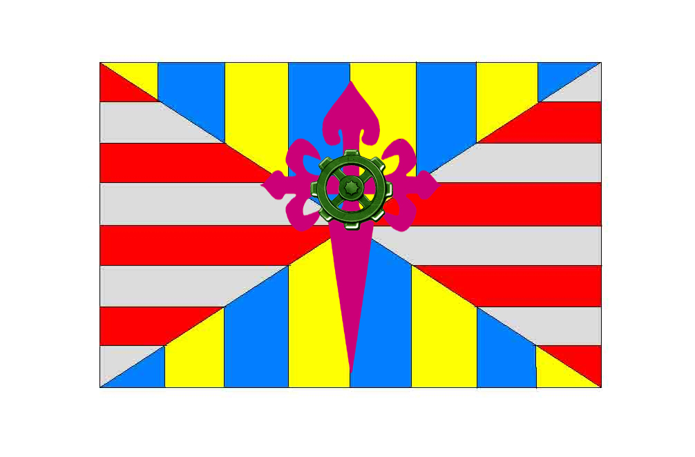 New Complete Flag from the little village in Spain called Santiago del Molinillo